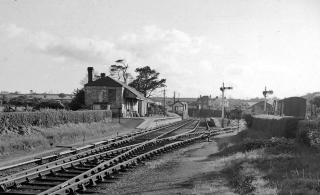 Boncath Station. View SW, towards Whitland; ex-GWR Whitland - Cardigan branch. Station and line closed to passengers 10/9/62, to goods 27/9/63.